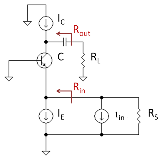 Bipolar current follower made with Klunky and Paint